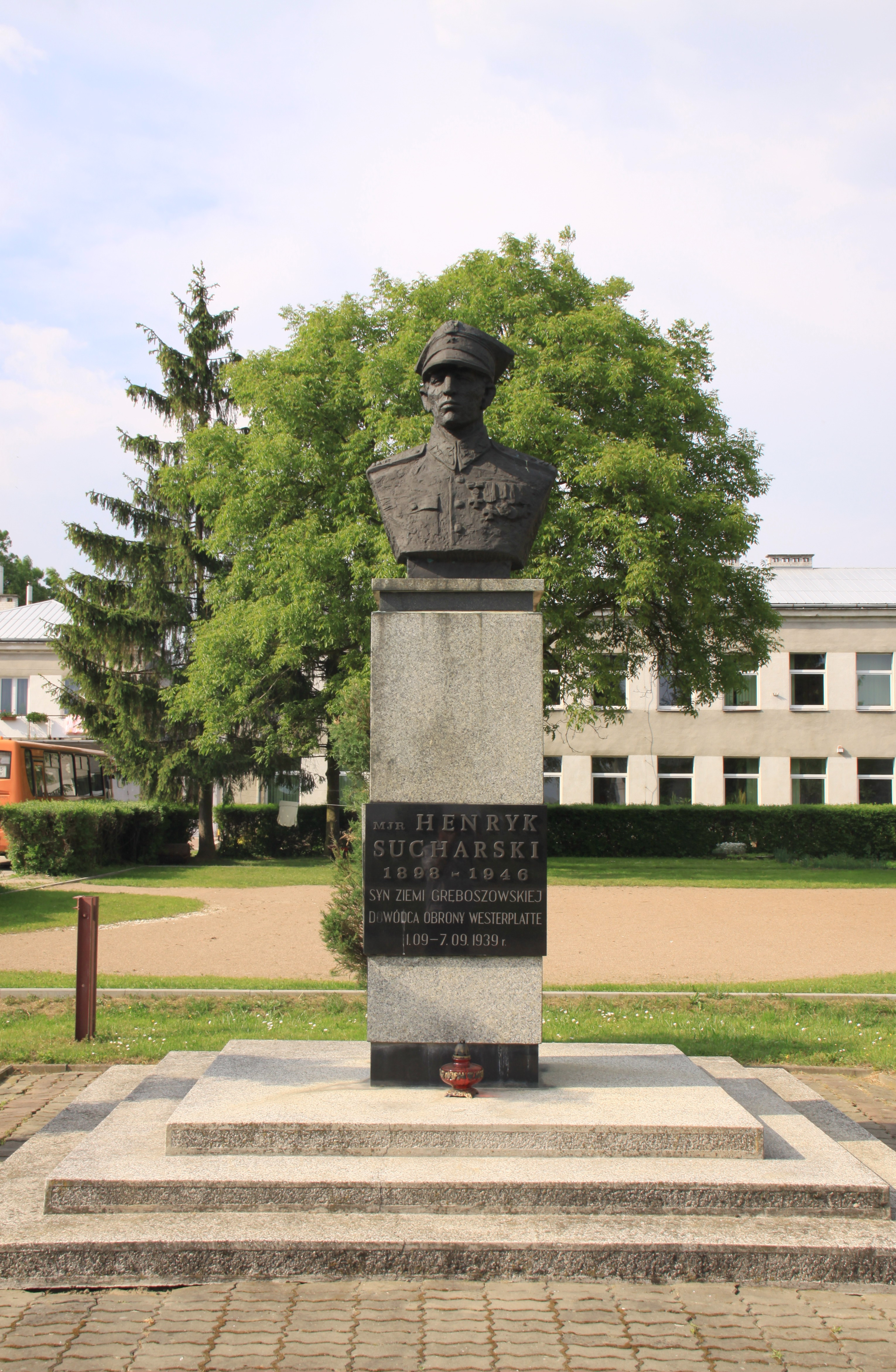 Gręboszów - monument of major Henryk Sucharski in front of local school his name.